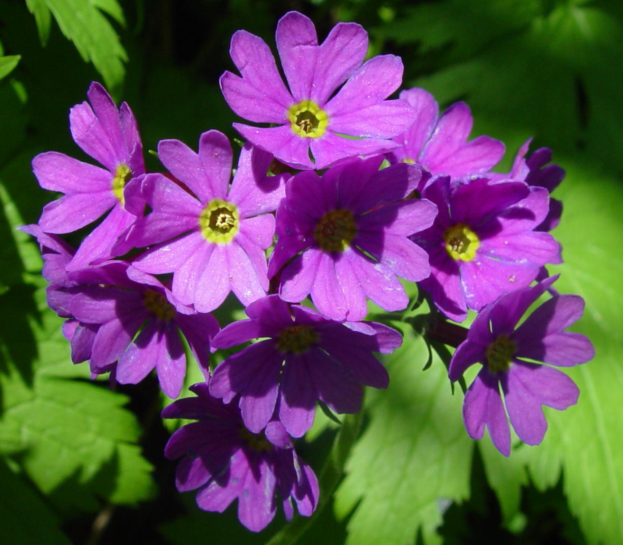 Primula jesoana in Mount Cho